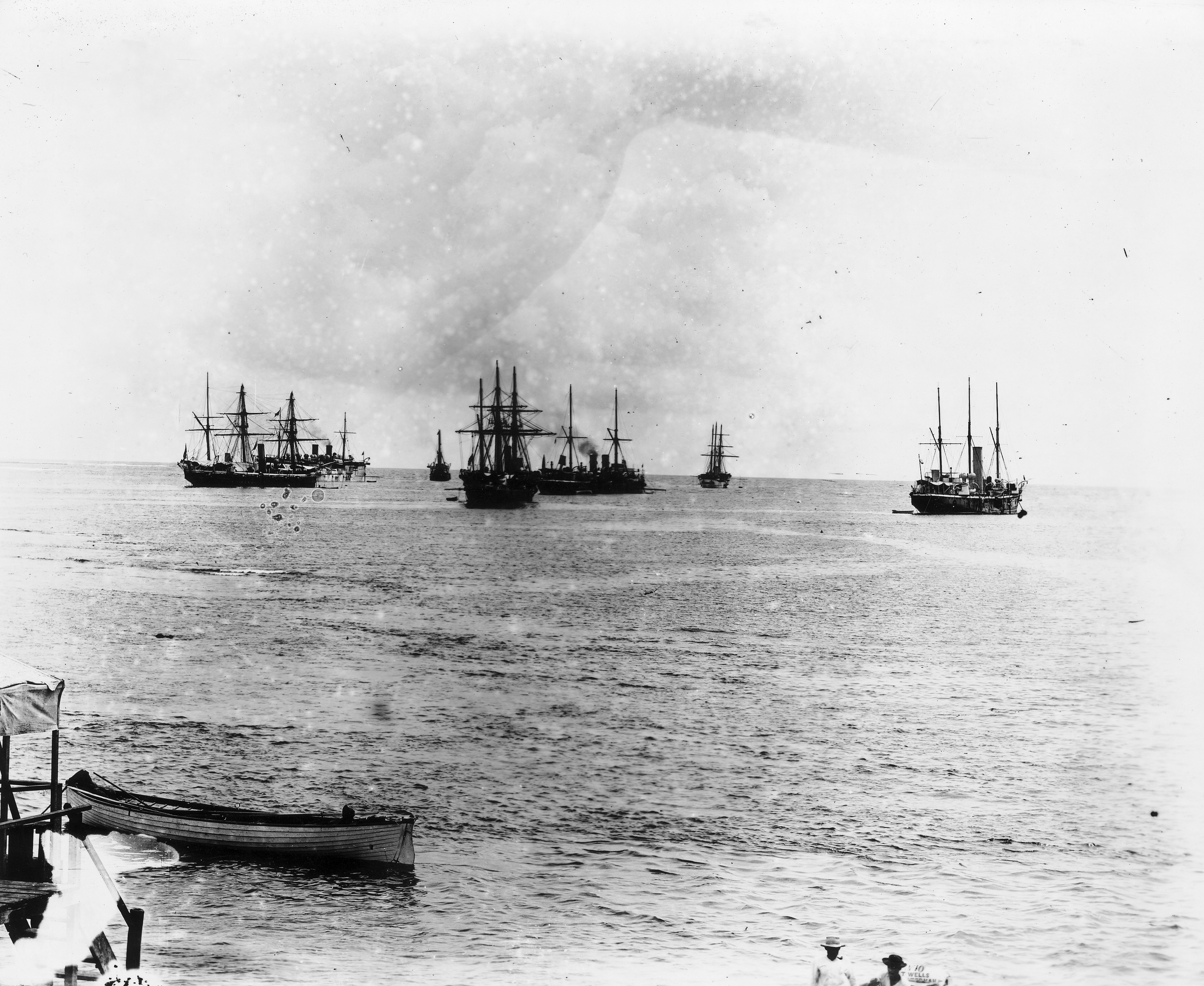 German, British and American warships in Apia harbour, 1899, Samoa. Gagana Samoa: Va'a taua a Siamani, Peretania ma Amerika i Apia, i le tausaga 1899.